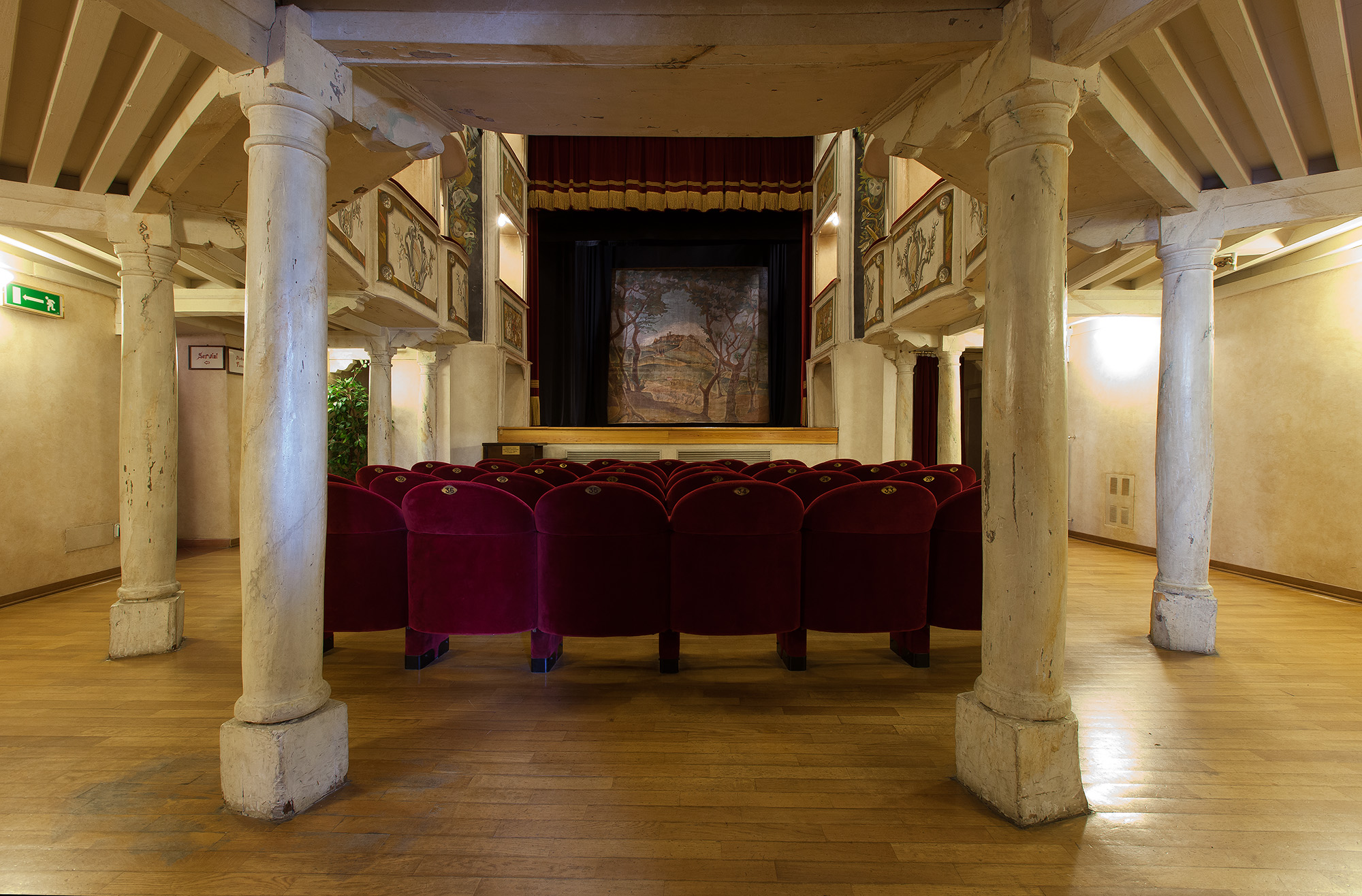 Teatro della Concordia in Monte Castello di Vibio, stall seats and stage.